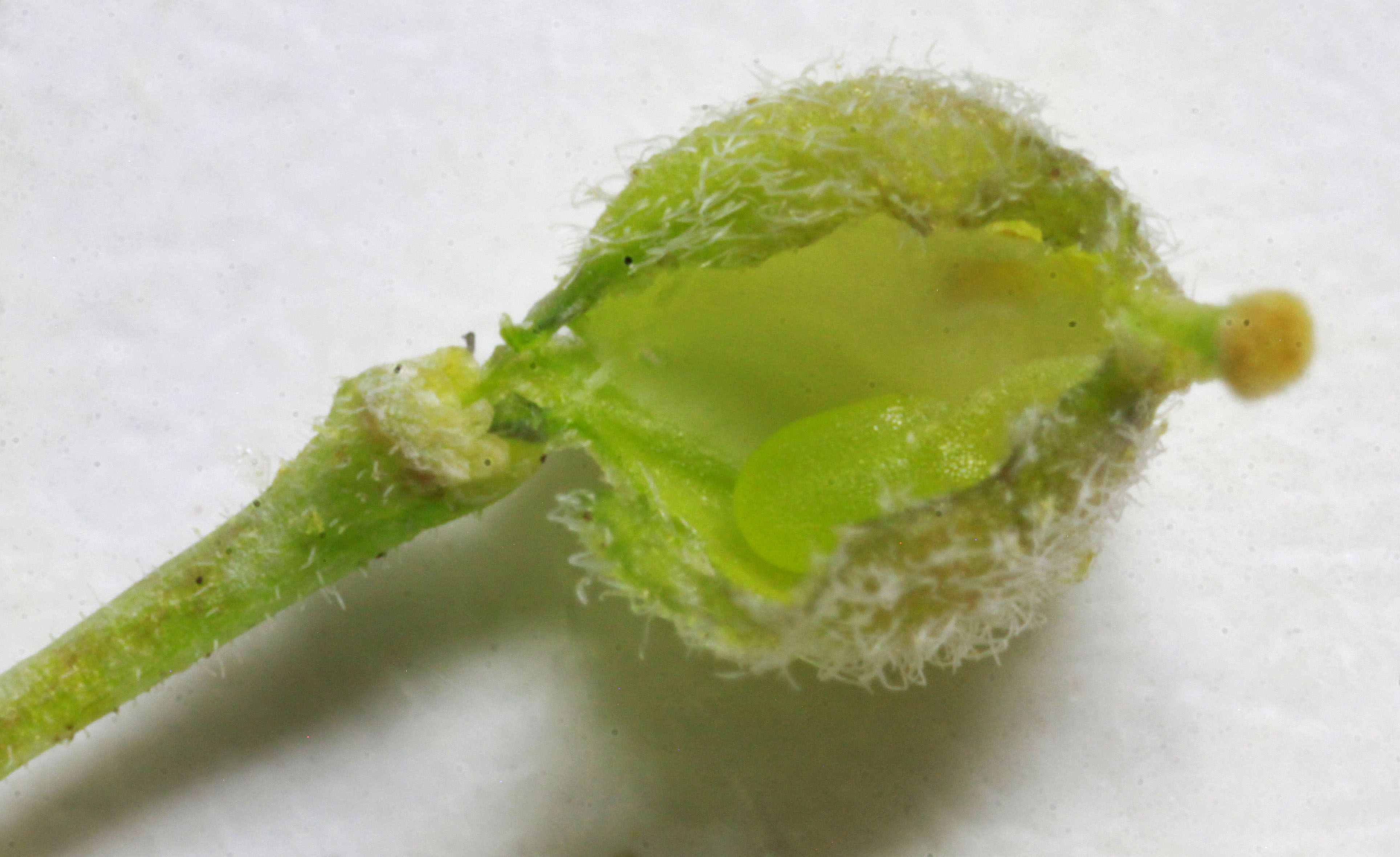 Hairy whitetop, Globe-pod hoarycress (Lepidium appelianum syn. Cardaria pubescens), Mustard family (Brassicaceae). Meadow near Josie Bassett Morris Ranch, Dinosaur National Monument, Utah.